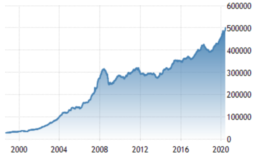 Indian Foreign Exchange Reserves